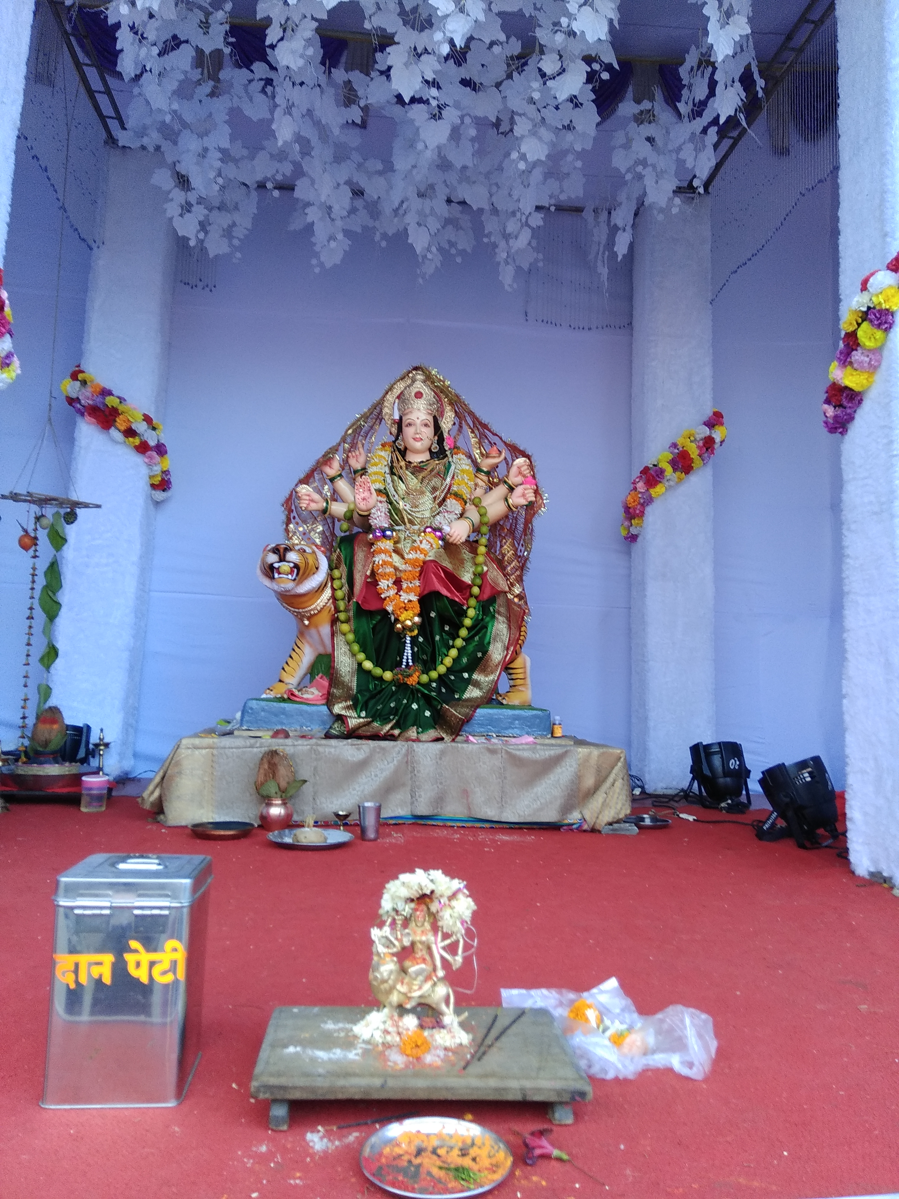 navratri festival in Pune